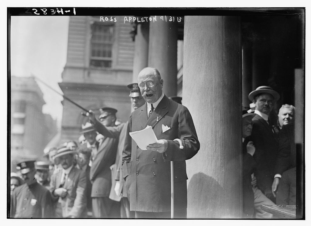 Bain News Service,, publisher. Ross Appleton [between ca. 1910 and ca. 1915] 1 negative : glass ; 5 x 7 in. or smaller. Notes: Title from unverified data provided by the Bain News Service on the negatives or caption cards. Forms part of: George Grantham Bain Collection (Library of Congress). Format: Glass negatives. Repository: Library of Congress, Prints and Photographs Division, Washington, D.C. 20540 USA, General information about the Bain Collection is available at Persistent URL: Call Number: LC-B2- 2834-1